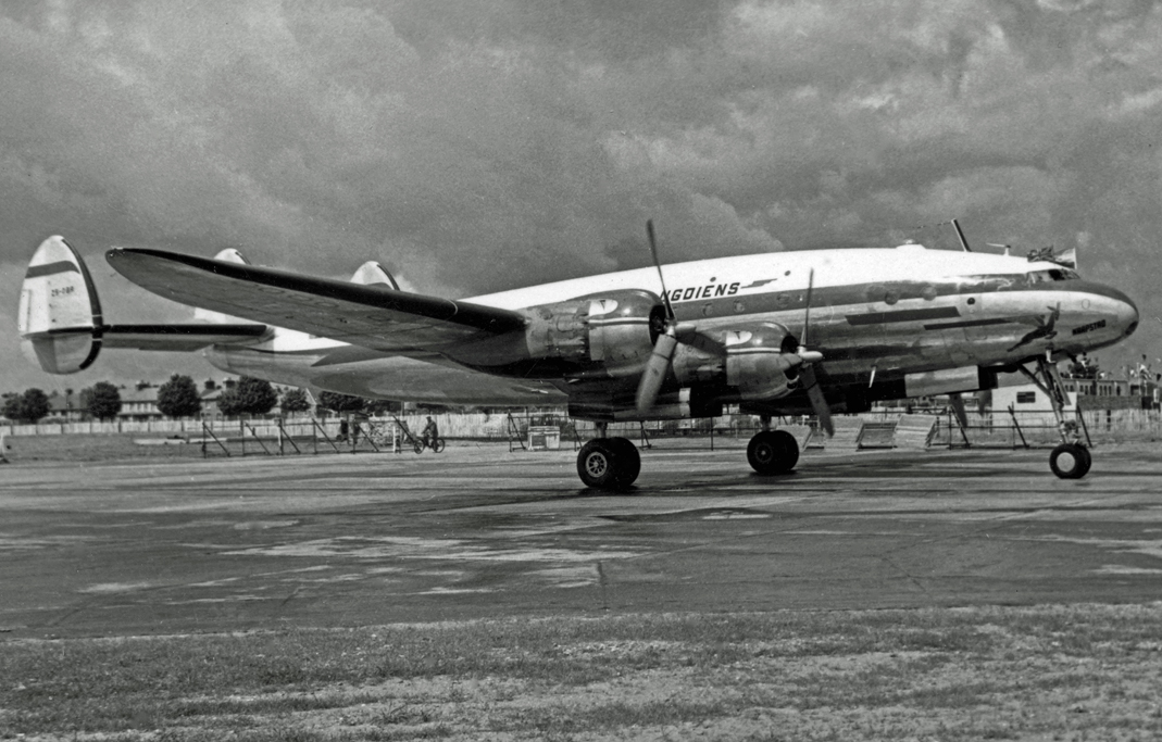 South African Airway Lockheed L-749A Constellation ZS-DBR "Kaapstad" arriving at London Heathrow North in 1953.